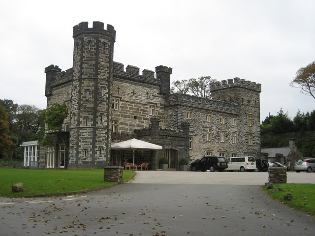 Castell Deudraeth Once a house (Bron Eryri), then a castle, then a ruin and now a very nice hotel and restaurant.